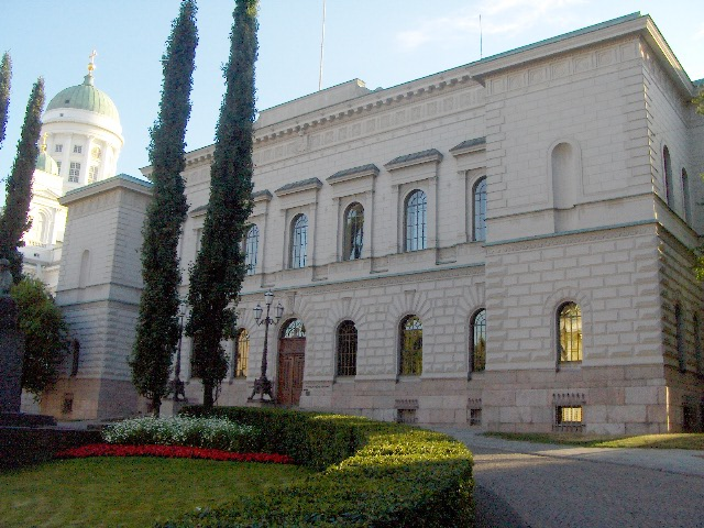 Bank of Finland, Snellmanninkatu 6, Helsinki. Built 1883. Architect: Ludwig Bohnstedt.